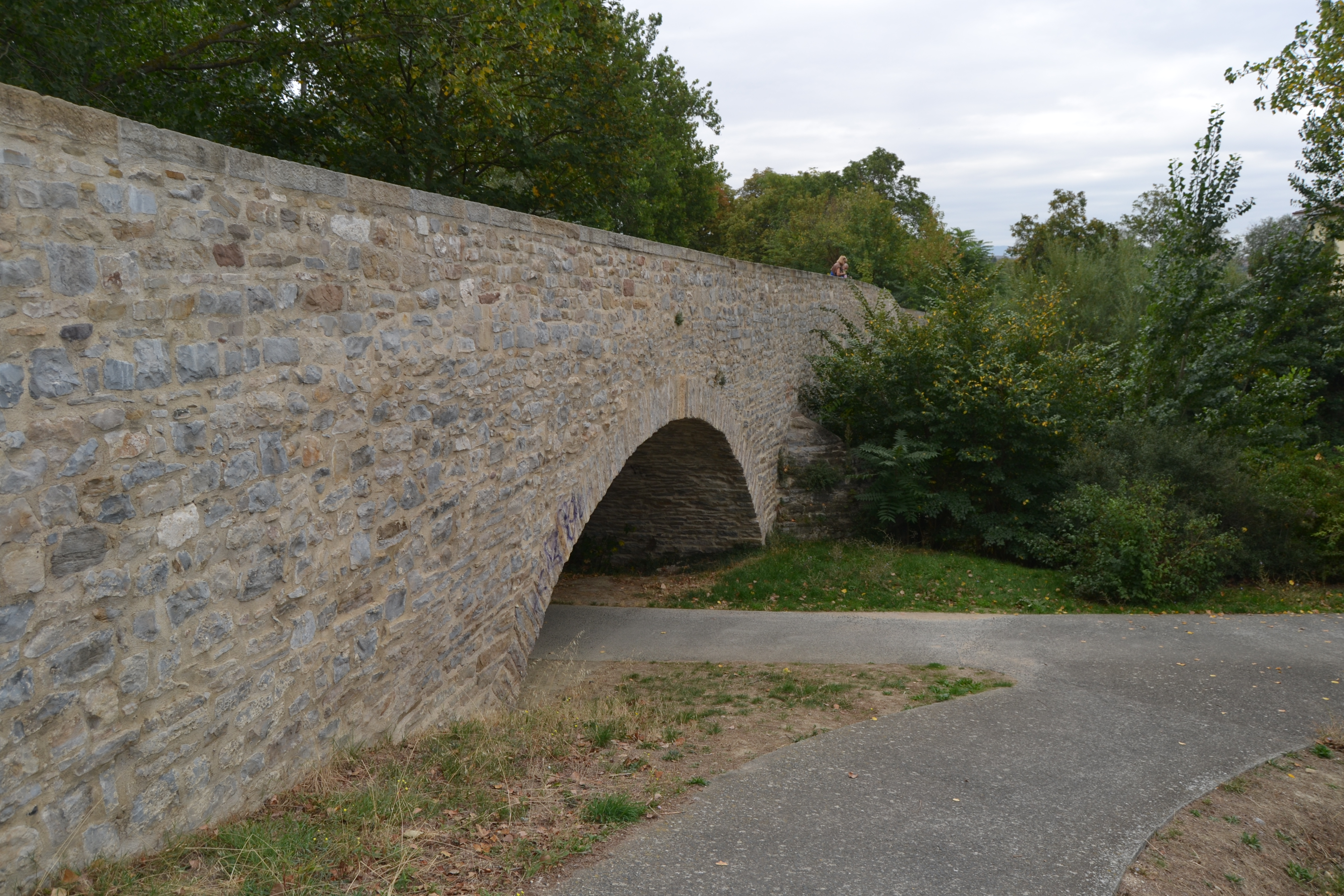 Bridge of Miluze. Iruñea-Pamplona, Navarre. Basque Country.